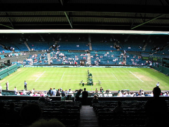 Centre Court, Wimbledon. Early in the afternoon before play commences, hence lack of spectators